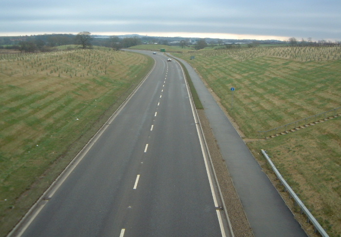 A511 road, my image